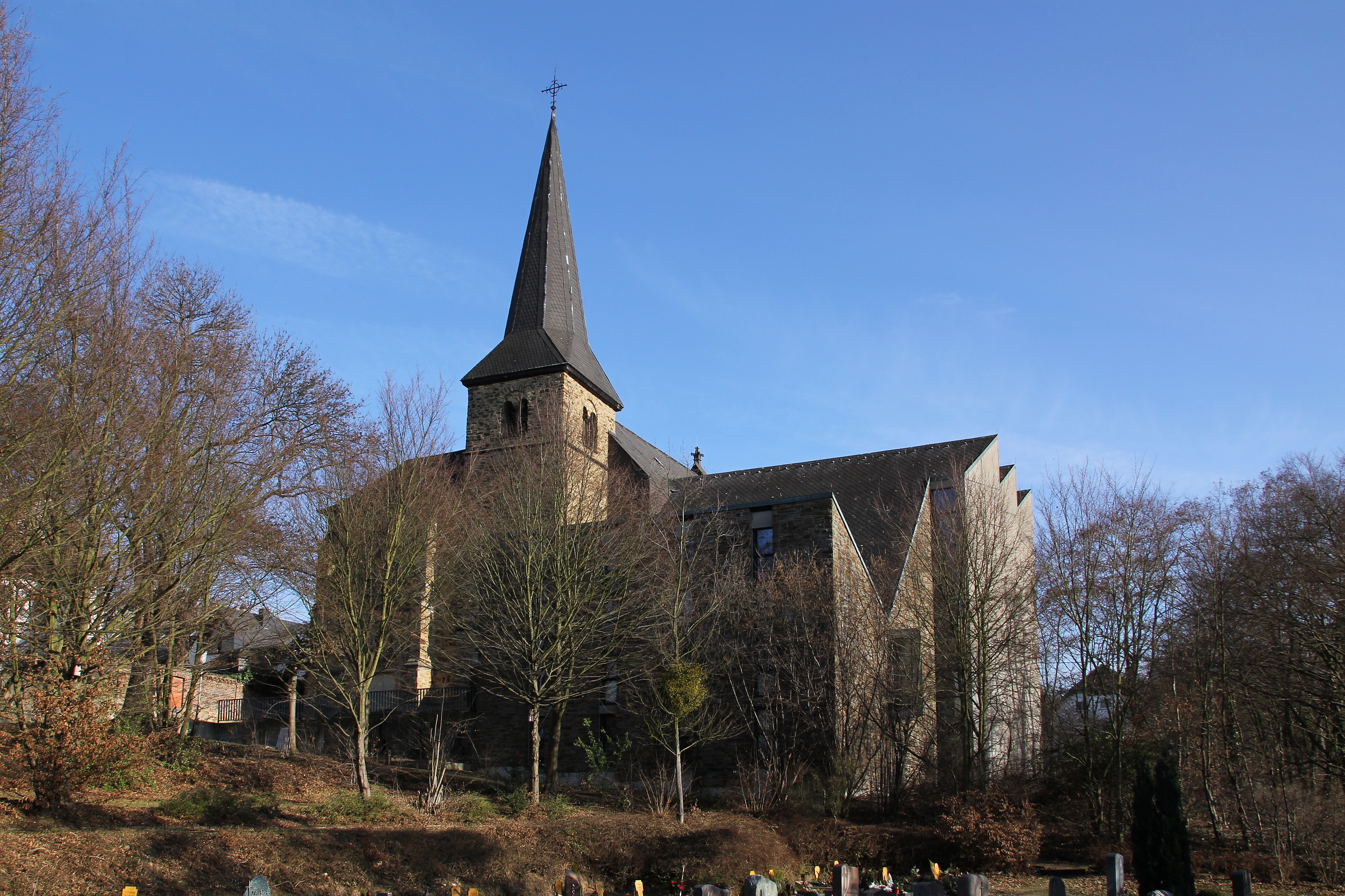 St. Aldegundis church in Koblenz